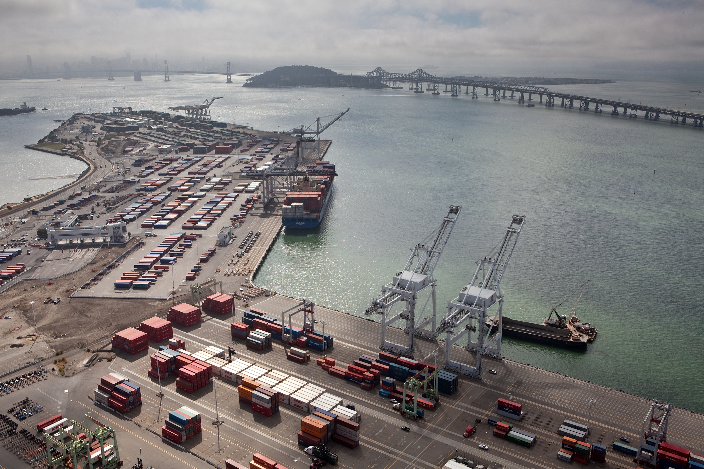 Port Of Oakland, California with Oakland Bay Bridge and San Francisco in background.